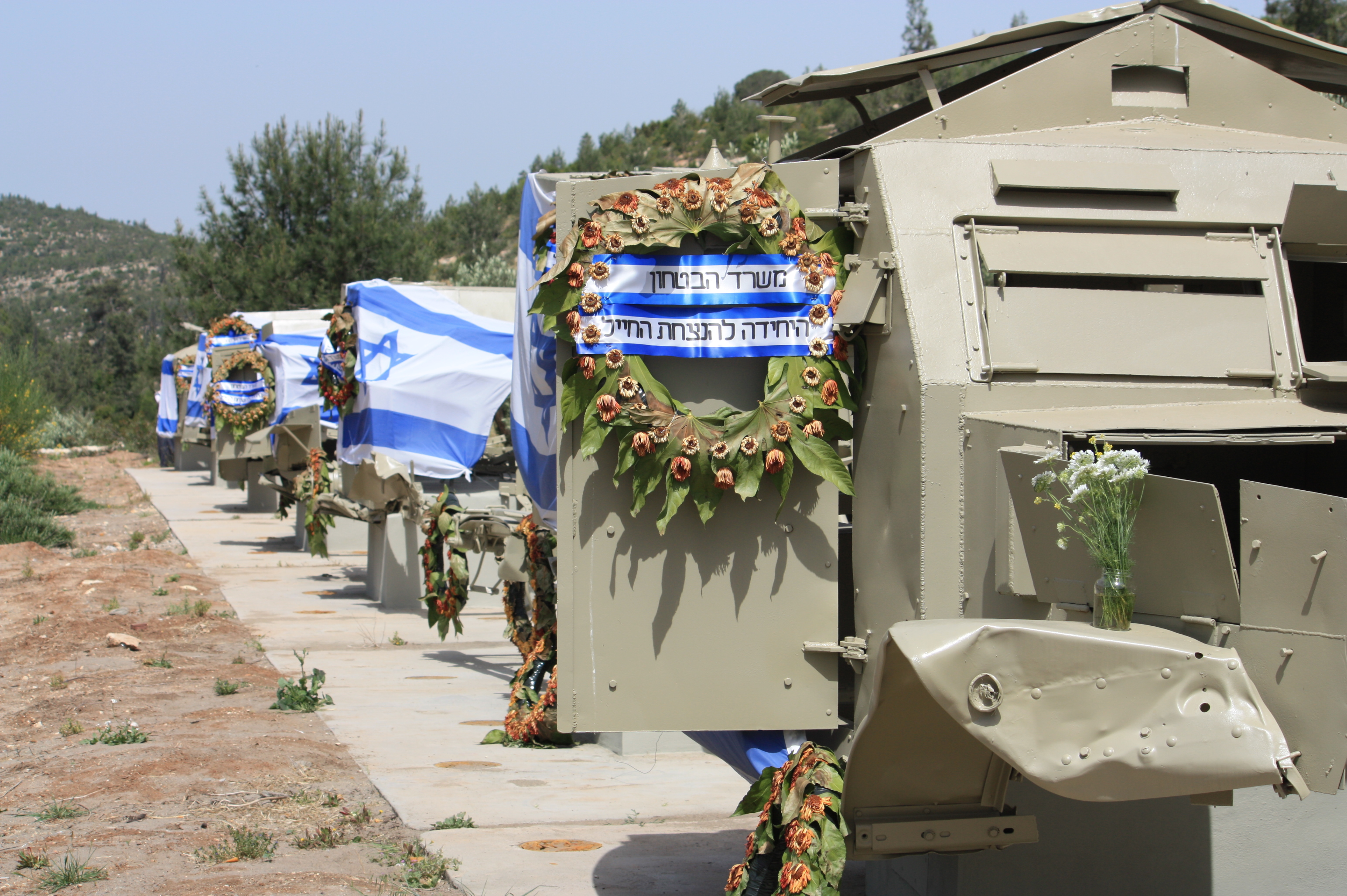 Remains or armored vehicles in Sha'ar hagai. The vehicles were used in supply convoys to blocked Jerusalem, during the Israeli war of Independence (1948).